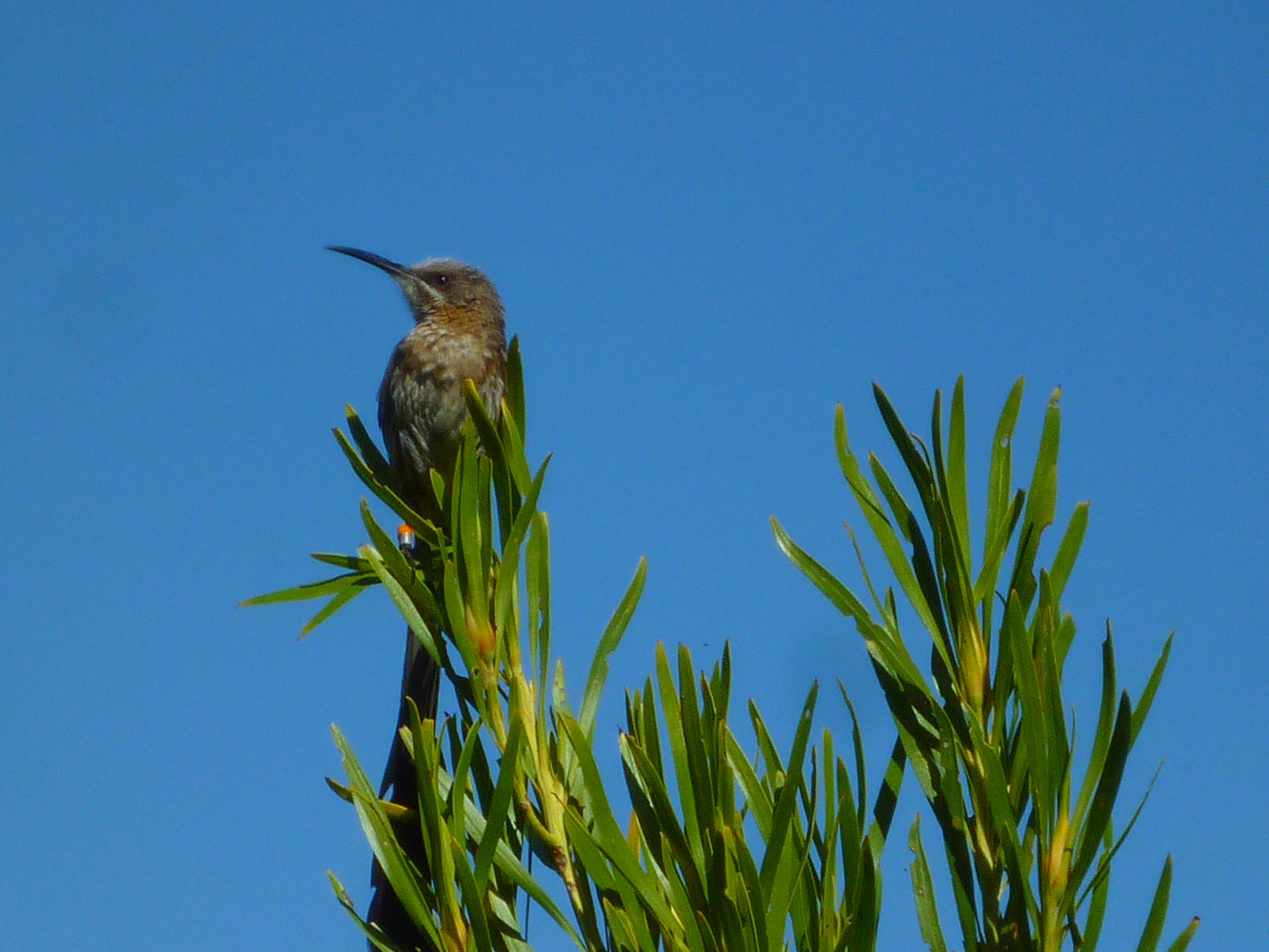 Promerops cafer in Fernkloof Nature Reserve (Hermanus, South Africa)